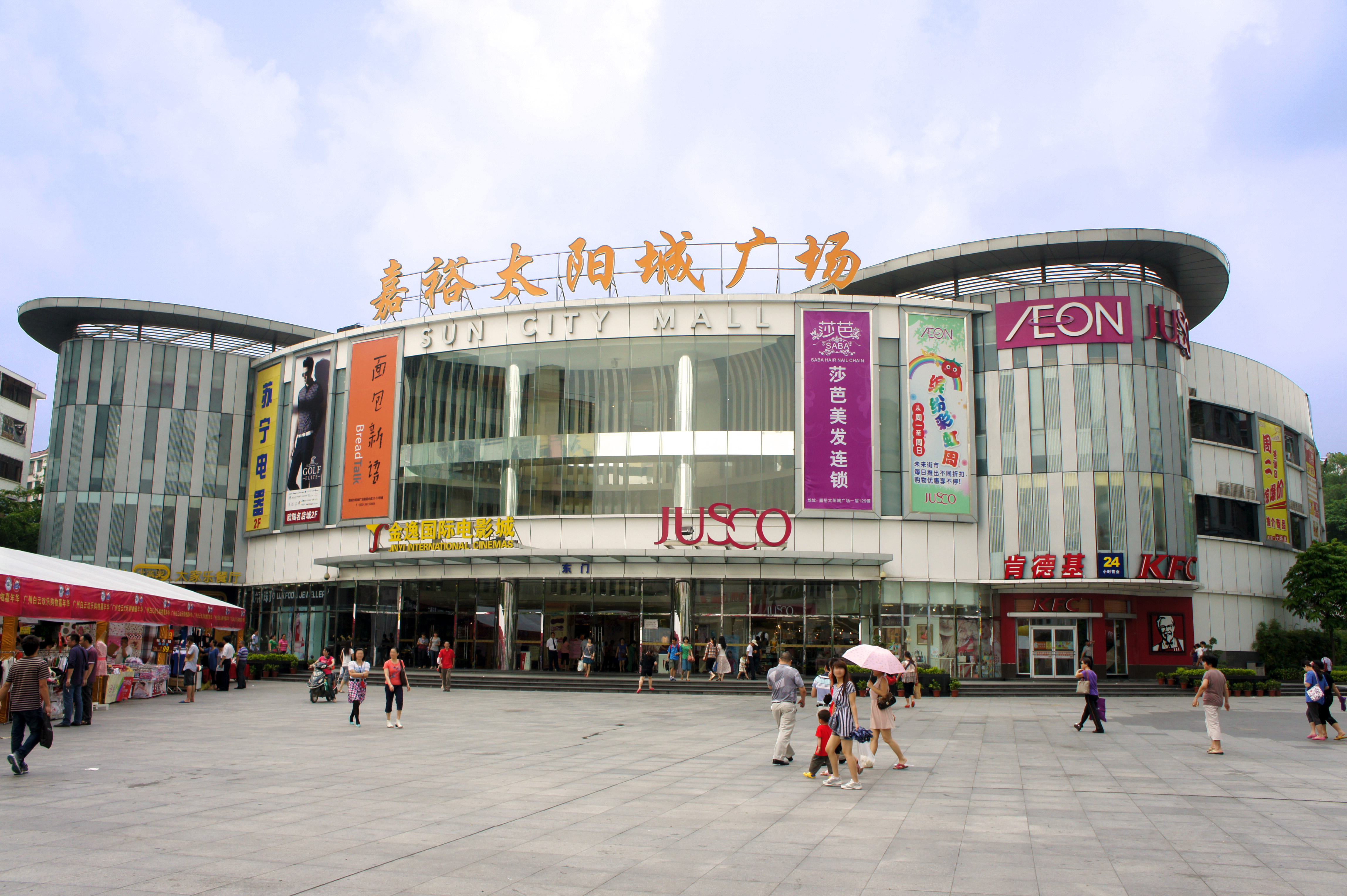 JUSCO Sun City Store, Guangzhou China.